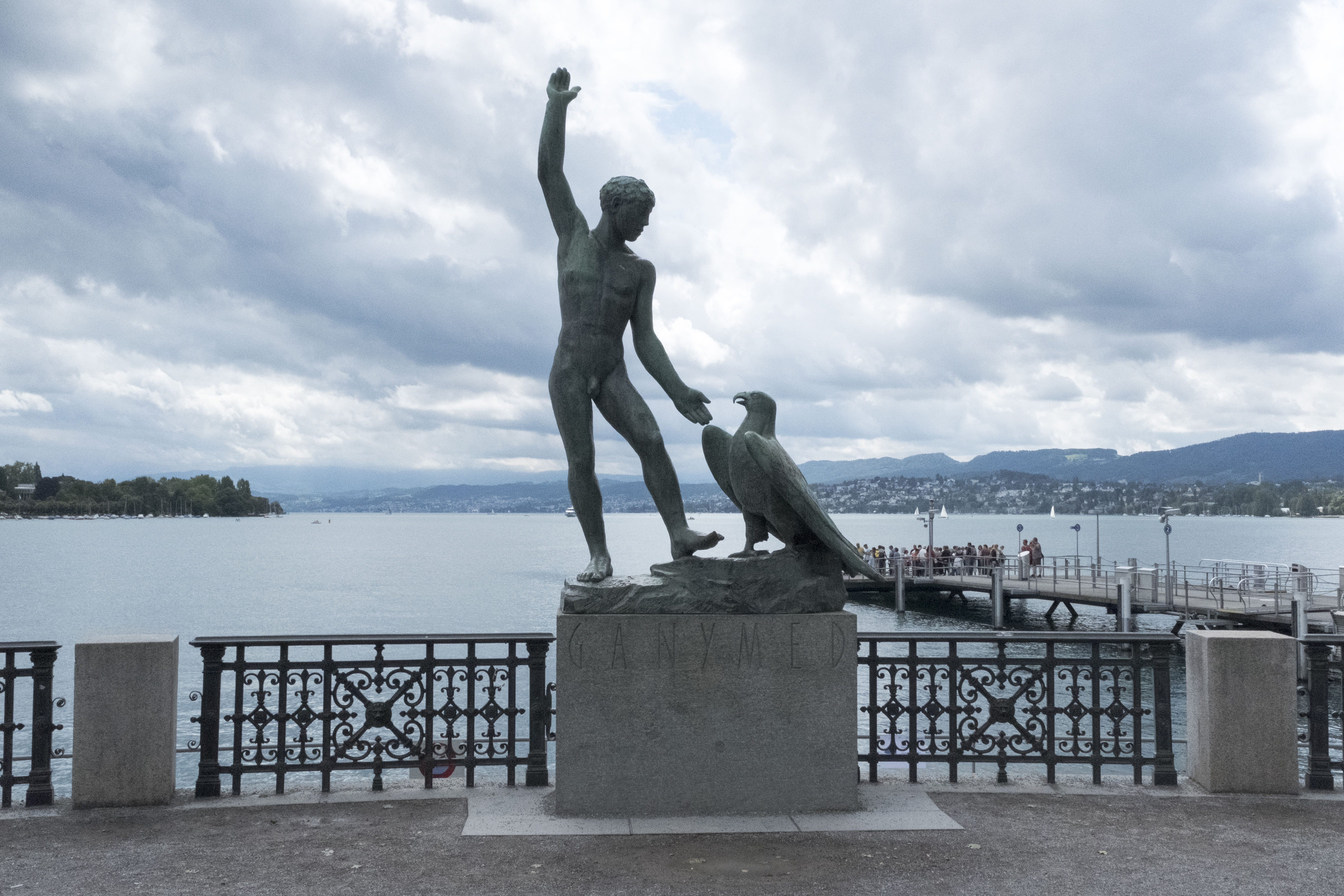 Statue of Ganymed at the lake Zurich